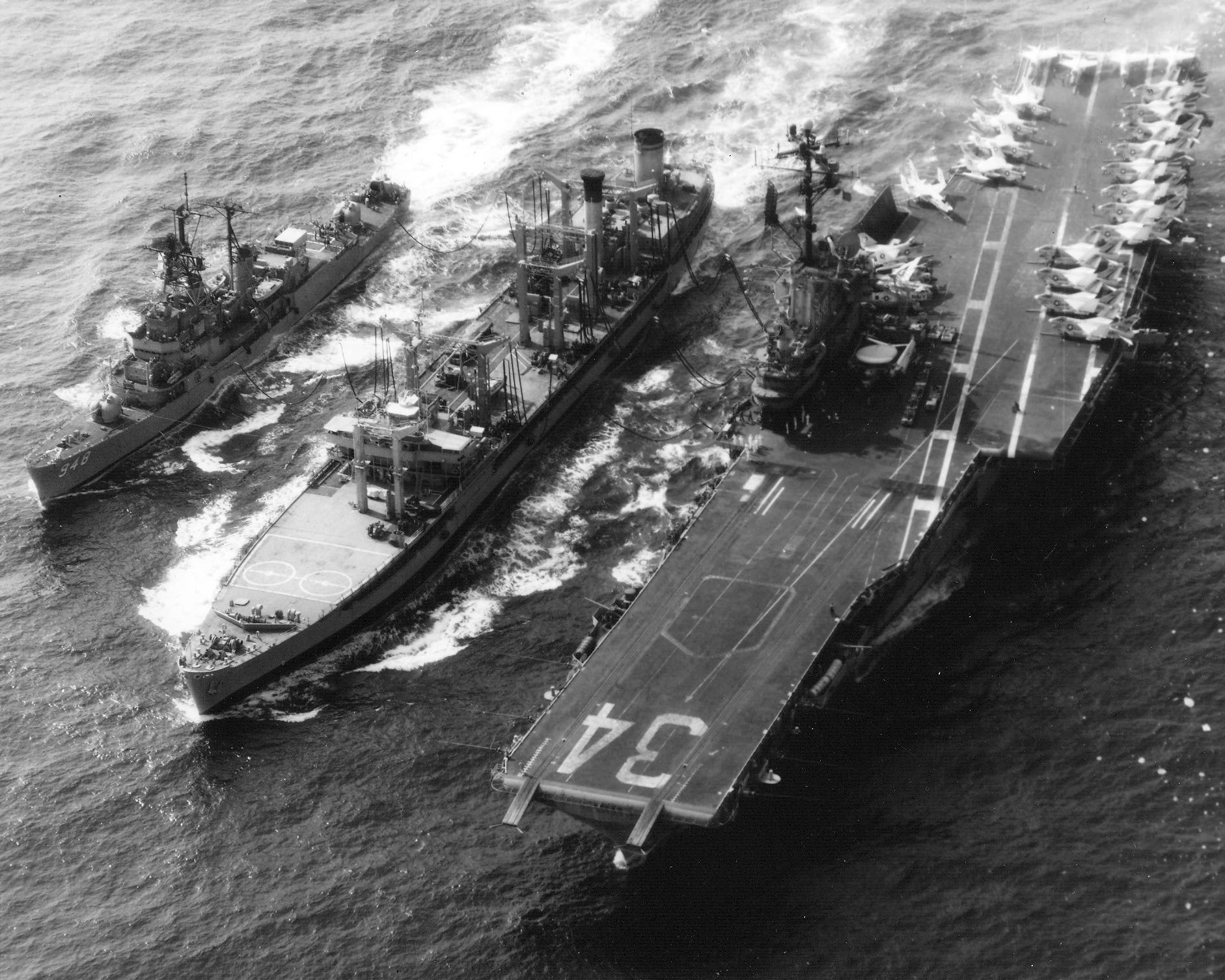 The U.S. Navy aircraft carrier USS Oriskany (CVA-34) and the destroyer USS Morton (DD-948) conduct underway replenishment from an Ashtabula-class oiler in the Pacific Ocean. Oriskany was deployed with Carrier Air Wing 19 (CVW-19) to the Western Pacific and Vietnam from 18 October 1973 to 5 June 1974.